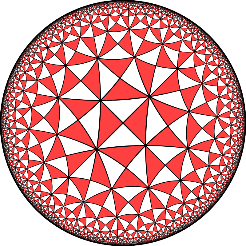 Hyperbolic Order-4 bisected pentagonal tiling